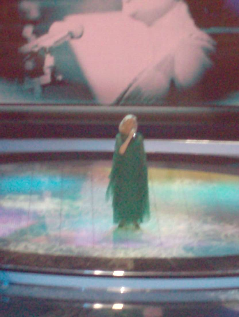 Festival RTP da Canção 2010 2nd semifinal